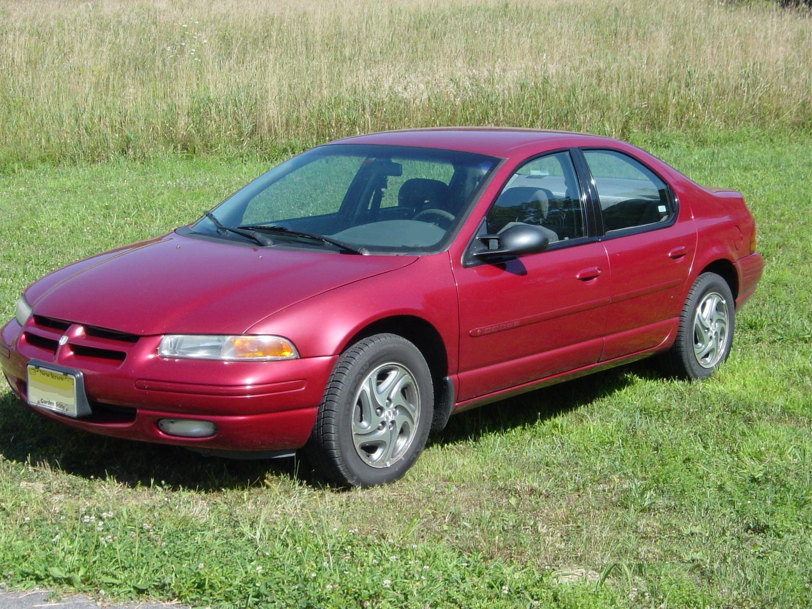 This is an example of the second year of production for the North American version of these vehicles. Note the fog lights and alloy wheels; both are extra options.